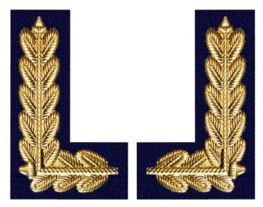 Rank insignia of the GDR National People`s Army; here: «oak leaves embroidery» (on collar of the dress uniform) of all admiral ranks (OF6-9) of the Volksmarine – corps colour “navy blue”.